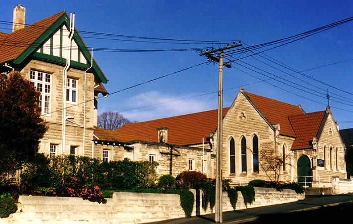 Buildings in Oamaru, New Zealand, showing the use of Oamaru stone.